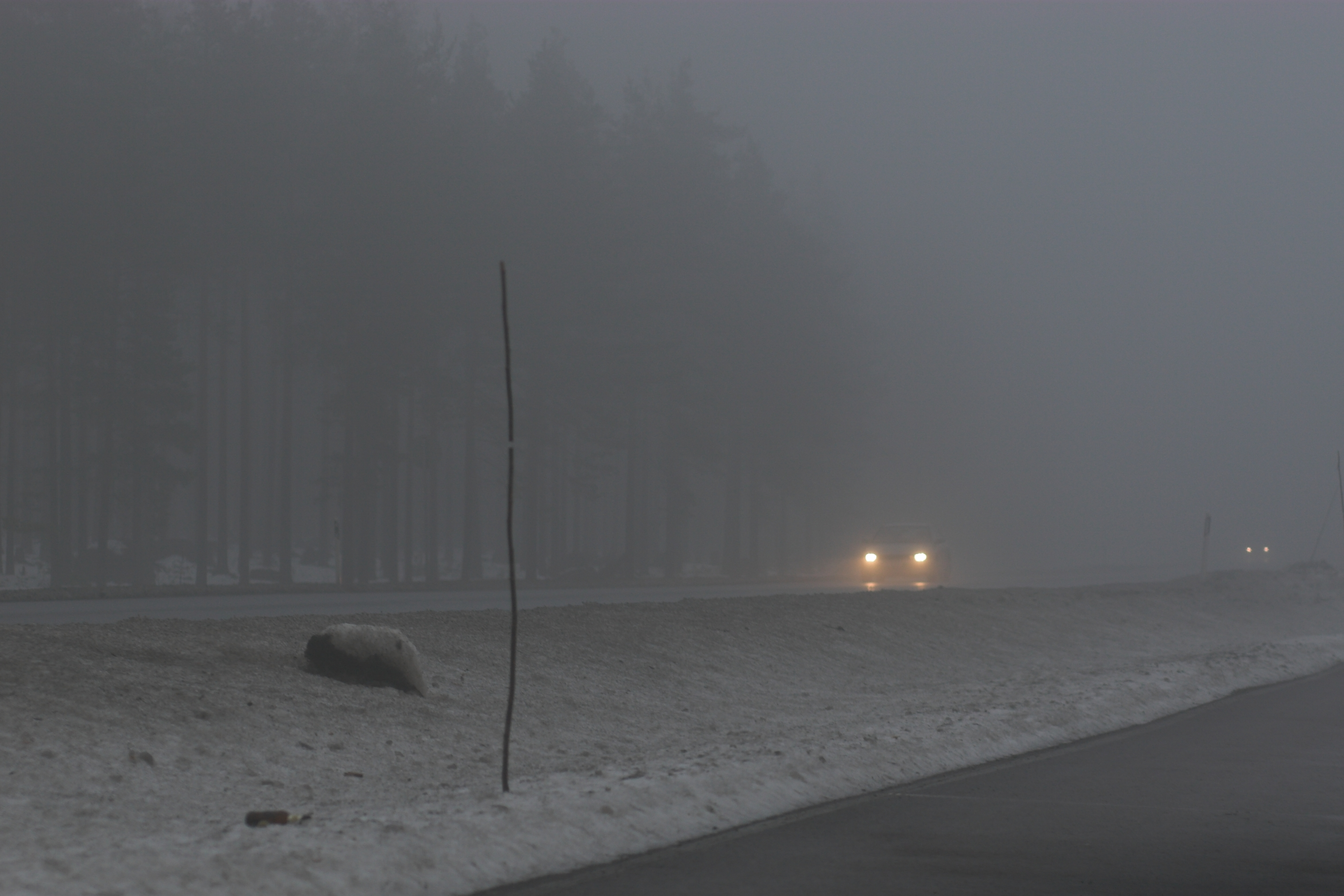 Effects of fog on visibility on road. Photo by Thermos.